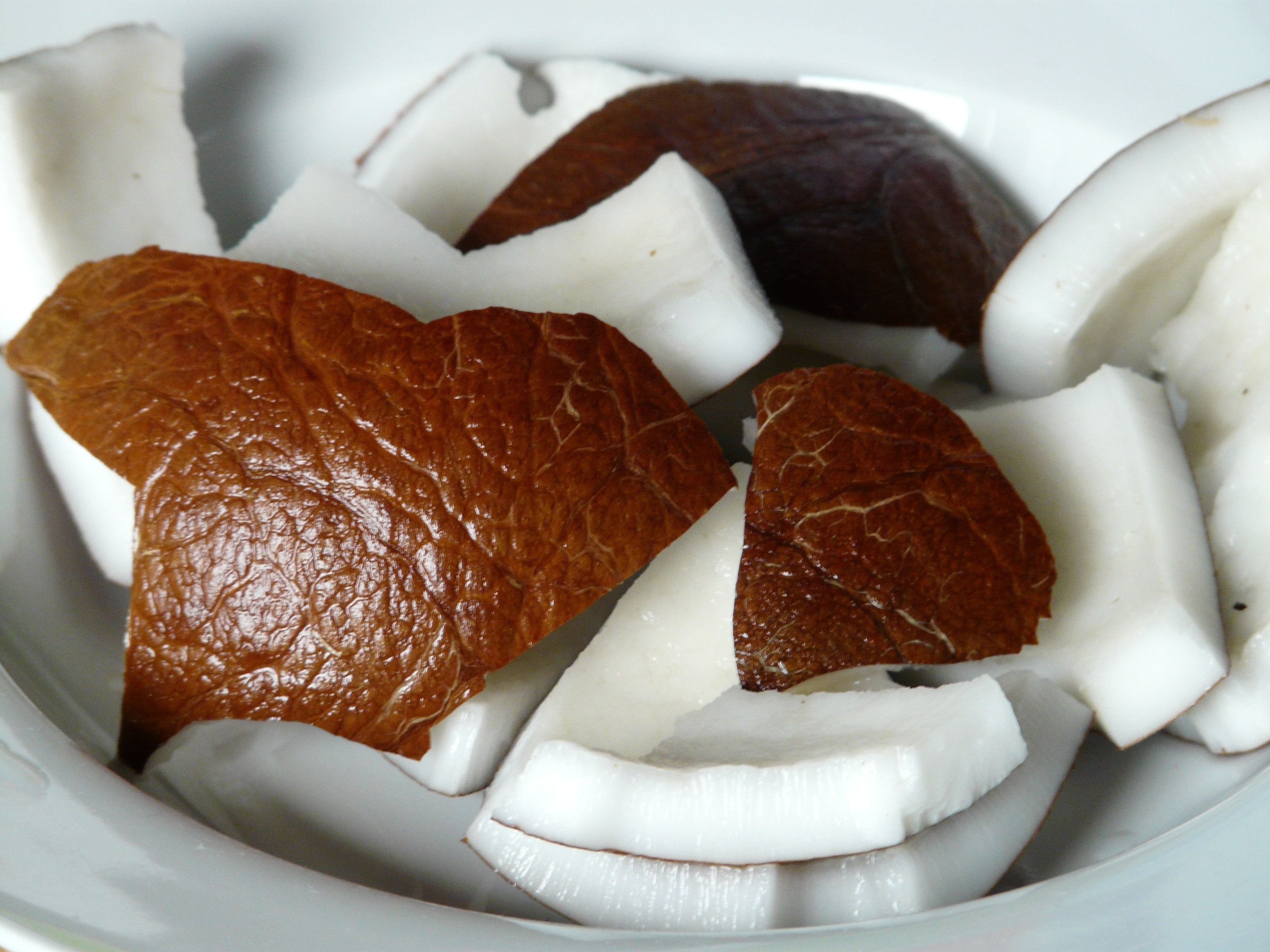 A coconut.